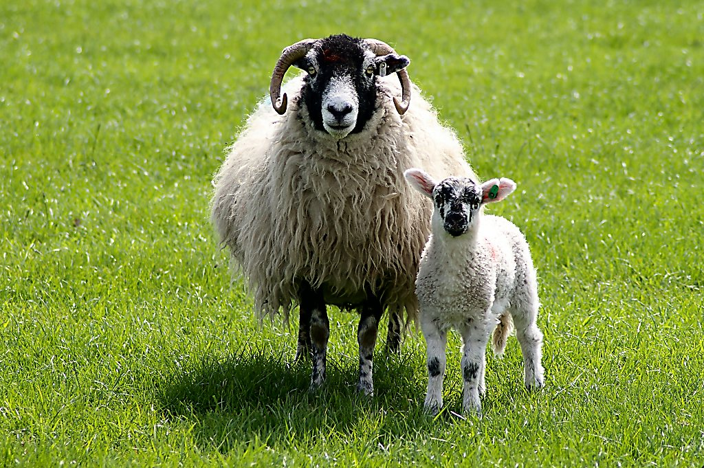 Swaledale mother and lamb.